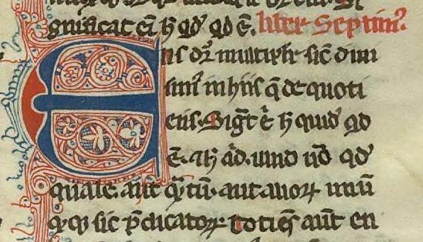 Beginning of book 7 of Aristotle's Metaphysics, translated into latin by William of Moerbeke. 14th century manuscript.